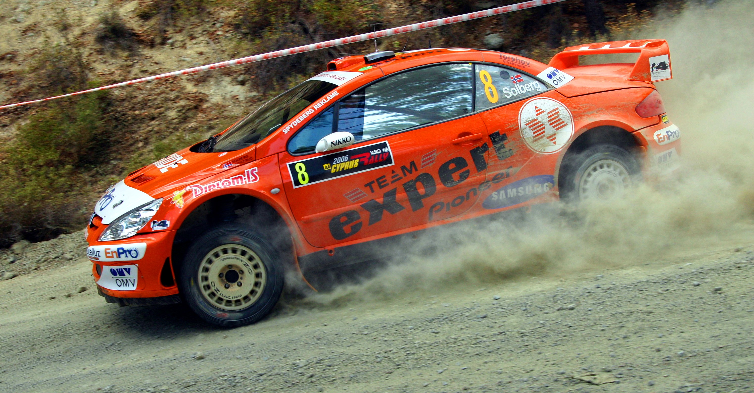 Henning Solberg on SS4 of the 2006 Cyprus Rally.